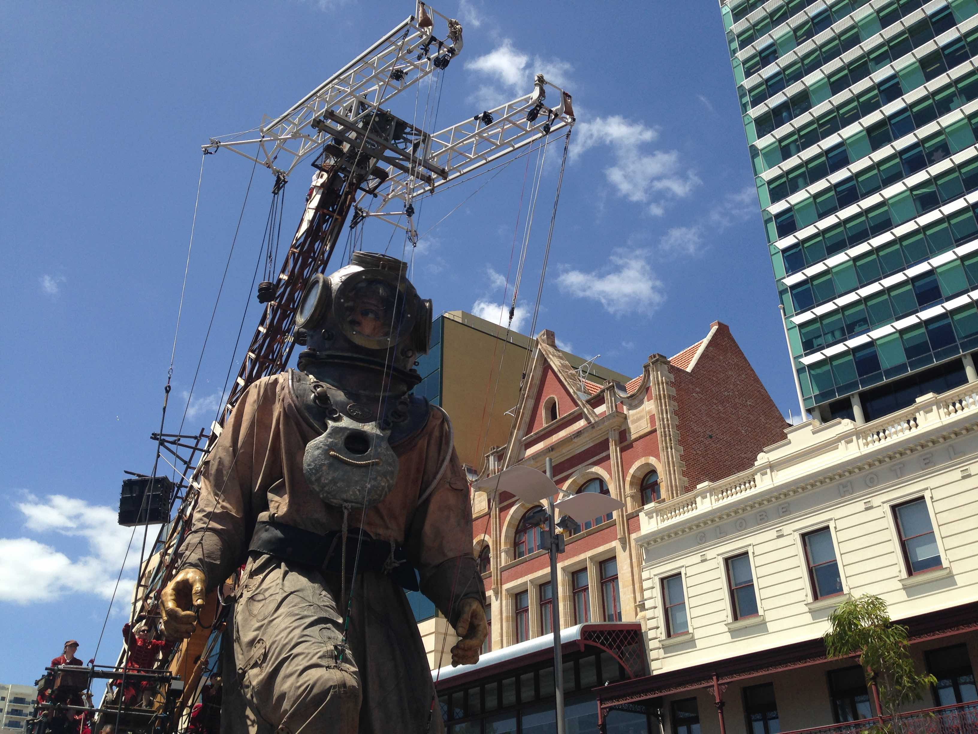 The Giants Diver puppet at Perth International Arts Festival 2015